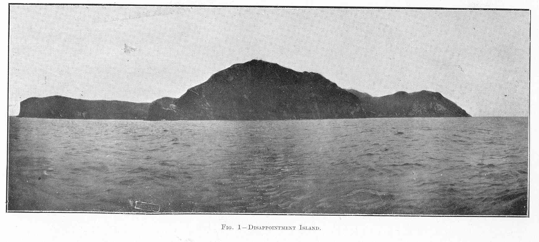 Disappointment Island Subject: Disappointment Island (New Zealand) Geographic Subject: New Zealand--Disappointment Island Tag: Coasts